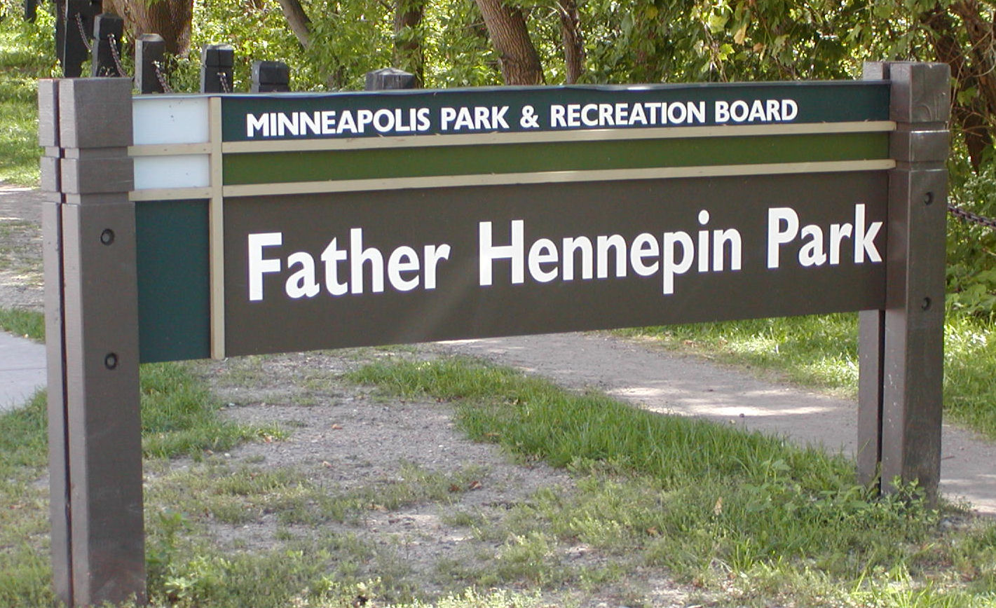 taken by William Wesen 9/13/06